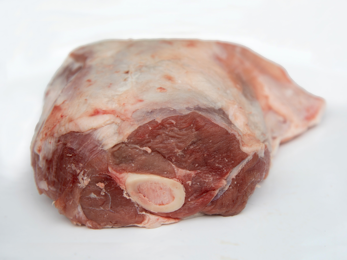 Shoulder of lamb